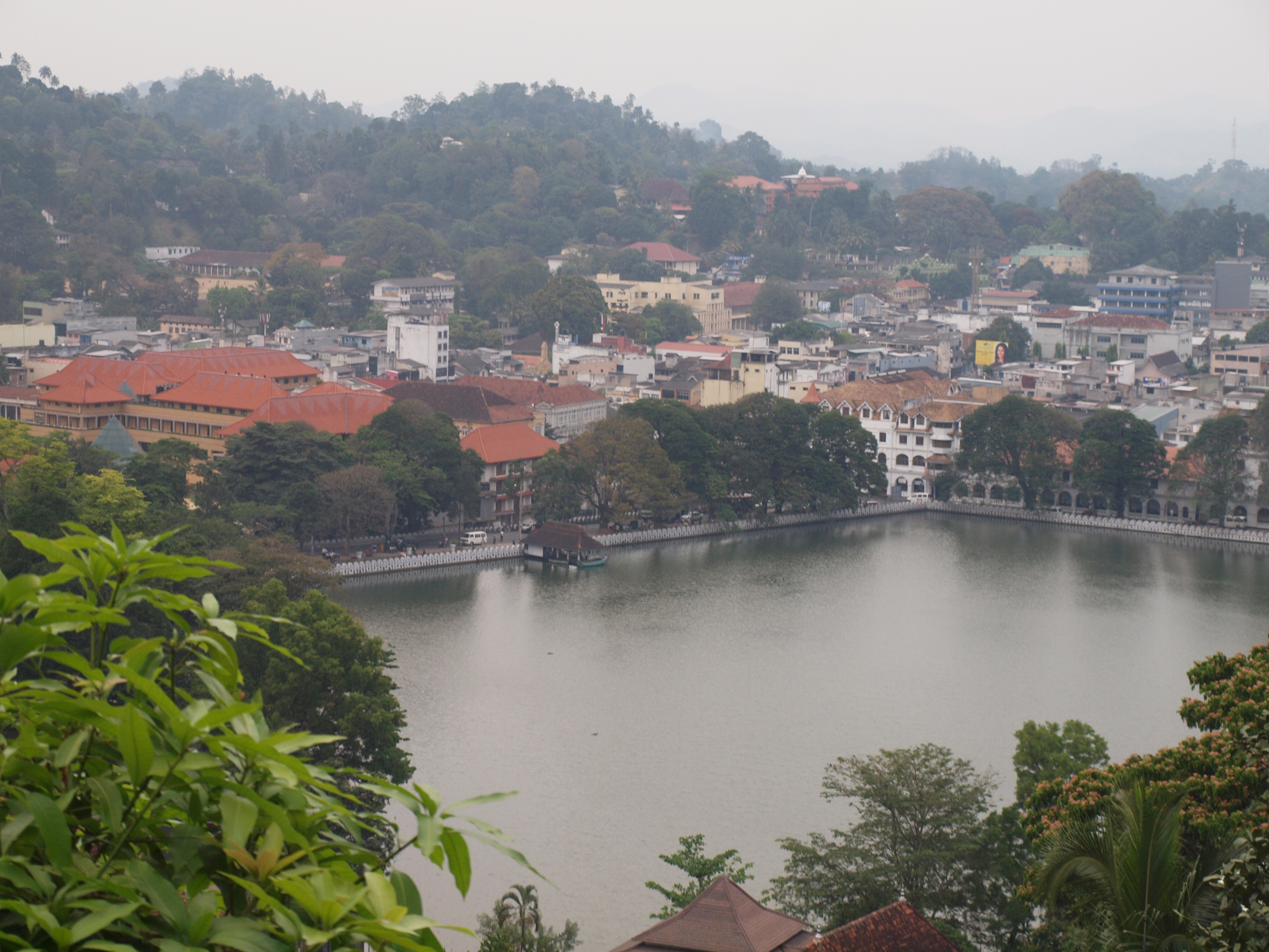 View of Kandy, Sri Lanka - 2010